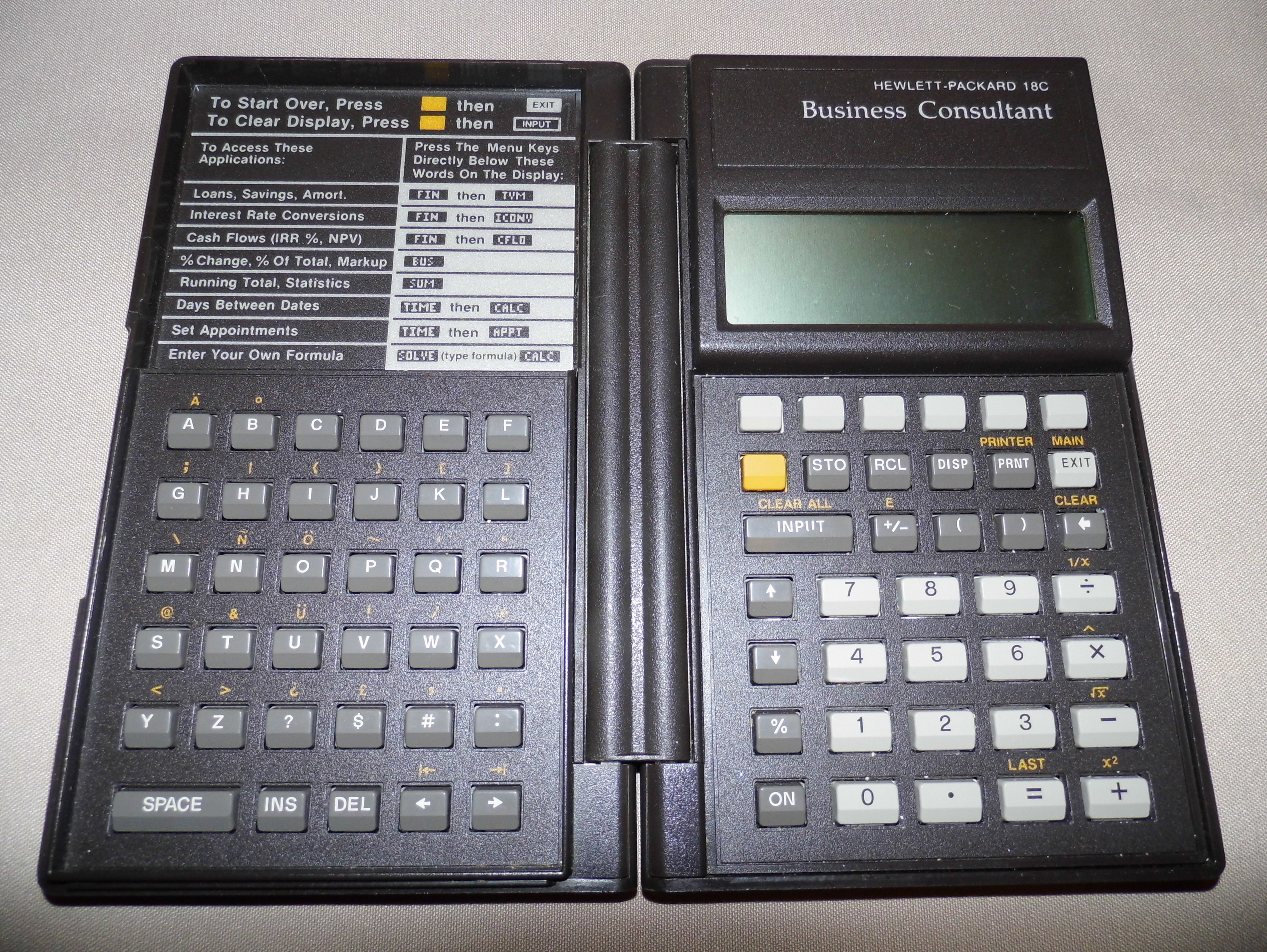 A HP-18C calculator